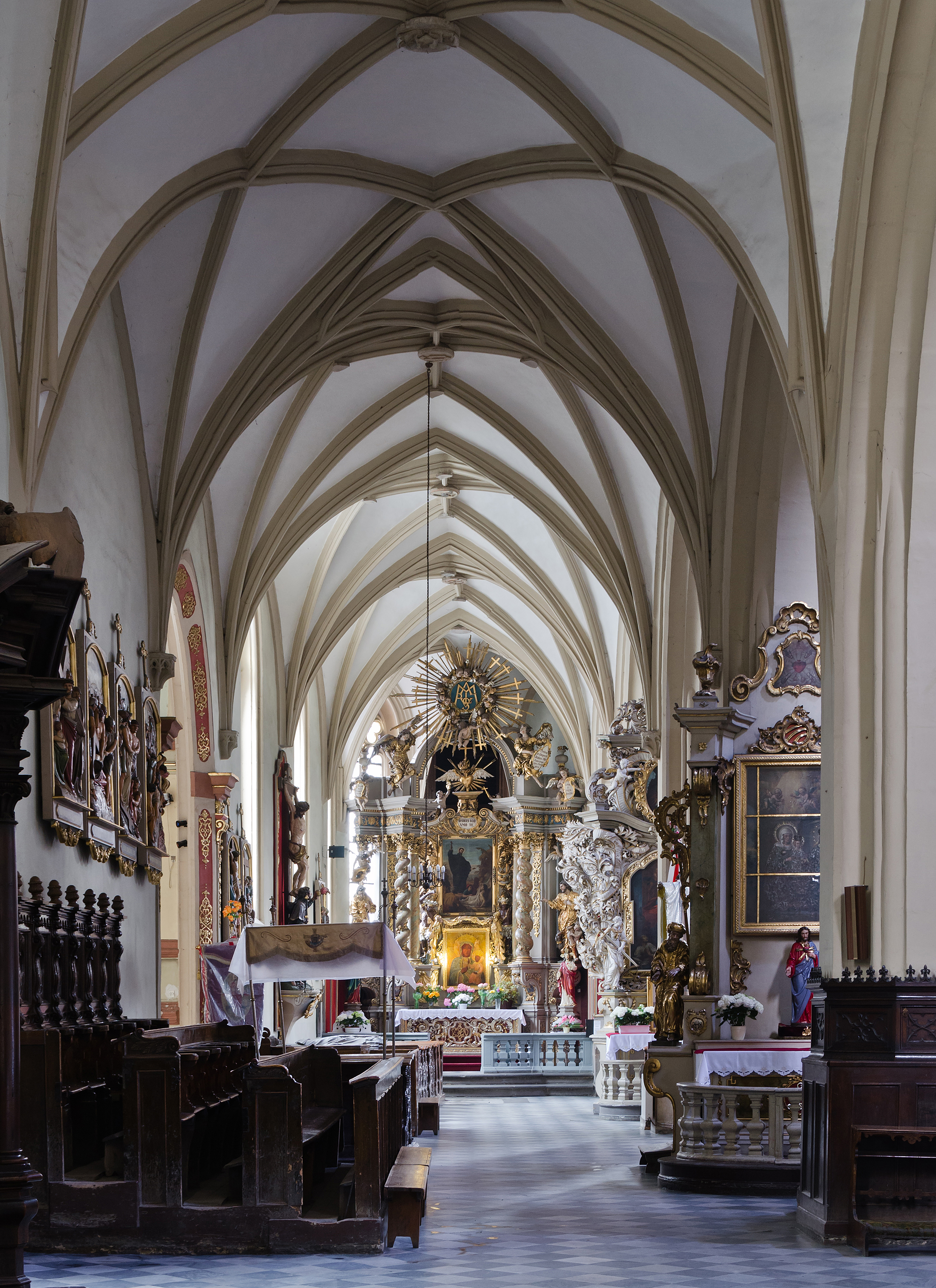 Church of the Assumption in Kłodzko